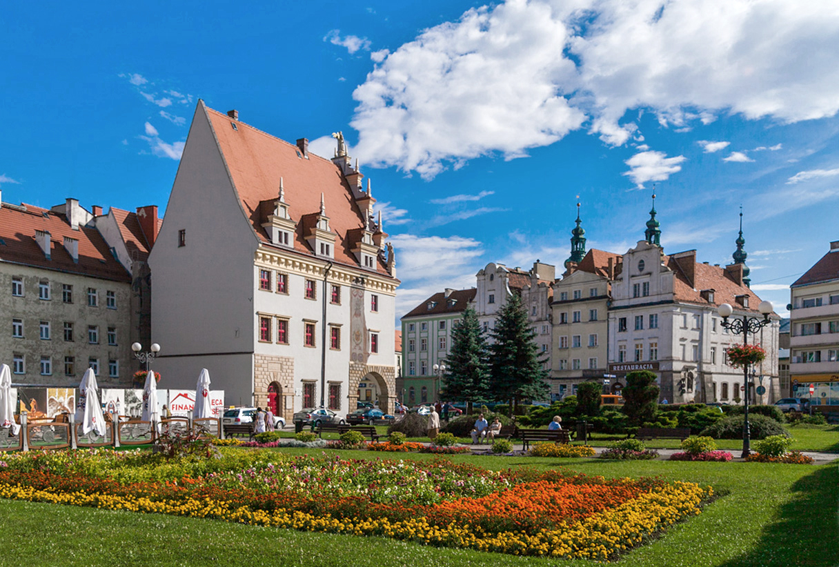 Nysa - City Center